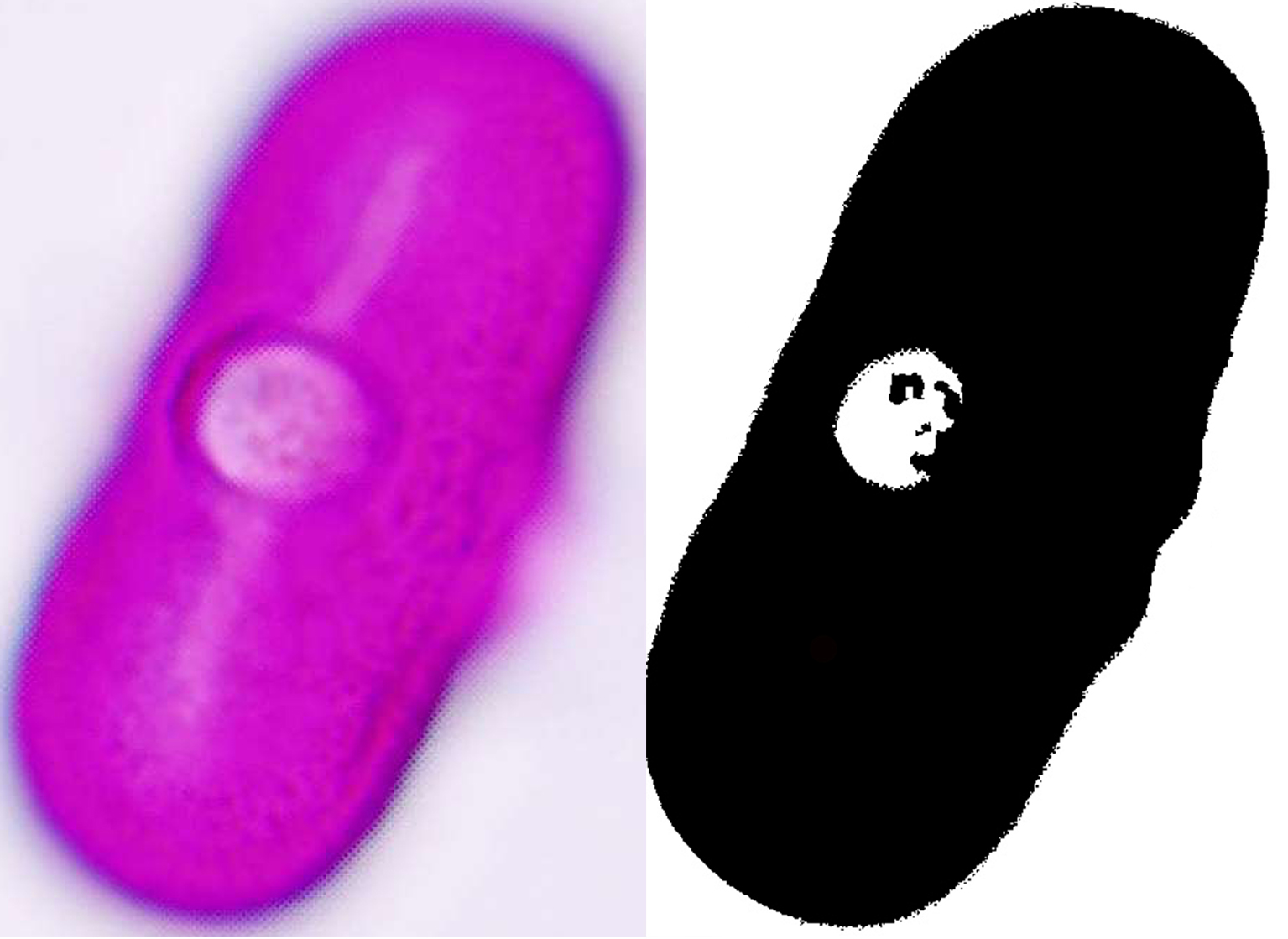 If you deal with the pollen grains recognition automation too long, it can show you its true face. The image of angelica pollen grain obtained with an electron microscope for further computerized recognition, before and after binarization stage